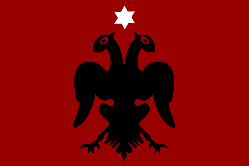 Reconstructed flag created by Jaume Ollé, updated on 15 July 1996.[1]